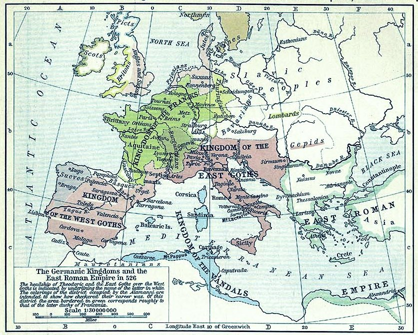 The political situation in Europe in the 6th century